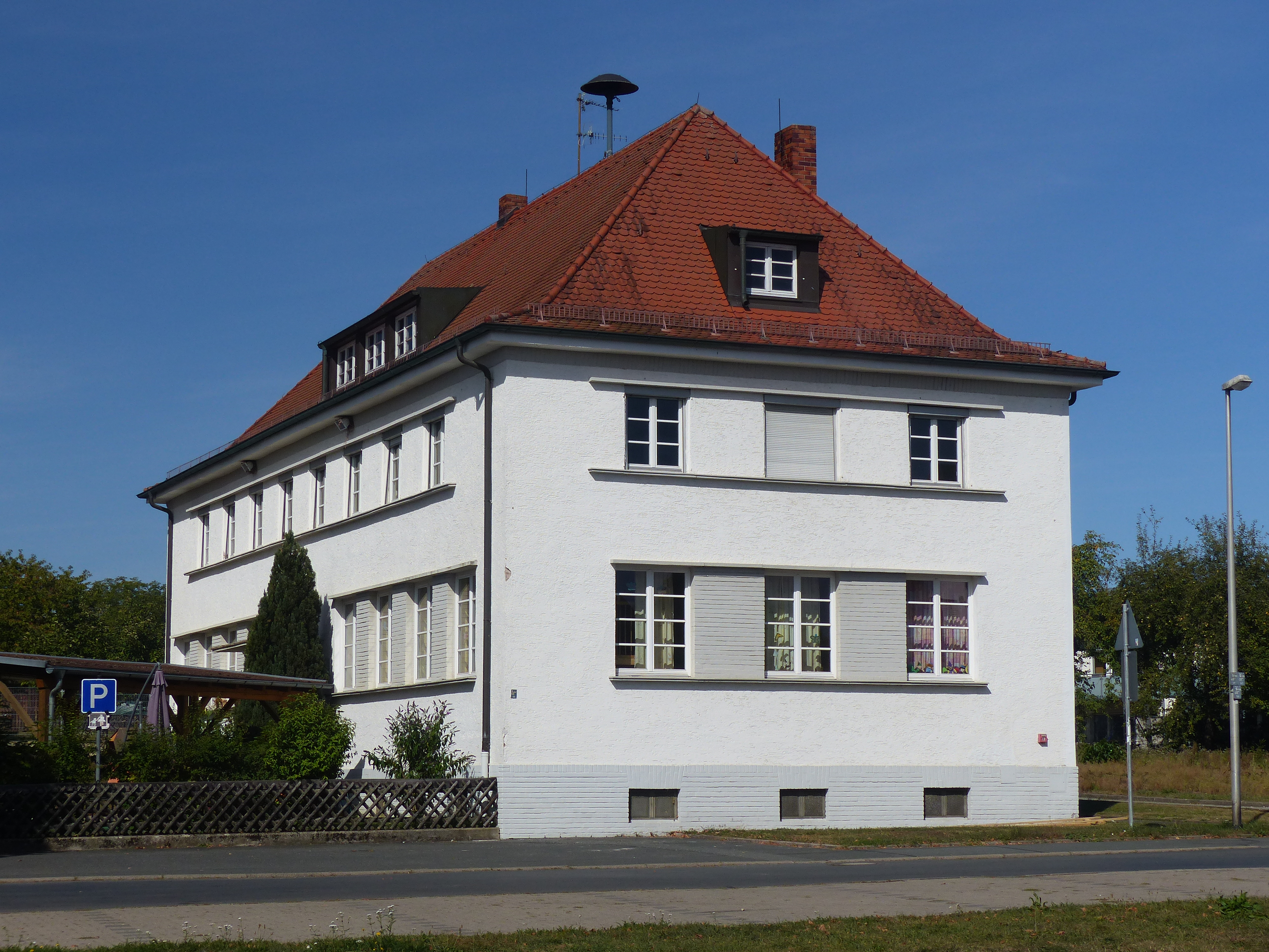 A former schoolhouse in the village Trailsdorf, a district of the municipality of Hallerndorf.